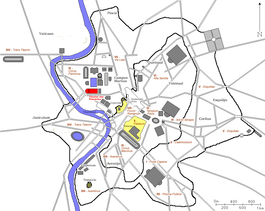 Theatre of Pompeius on a map of ancient Rome around 300 AD